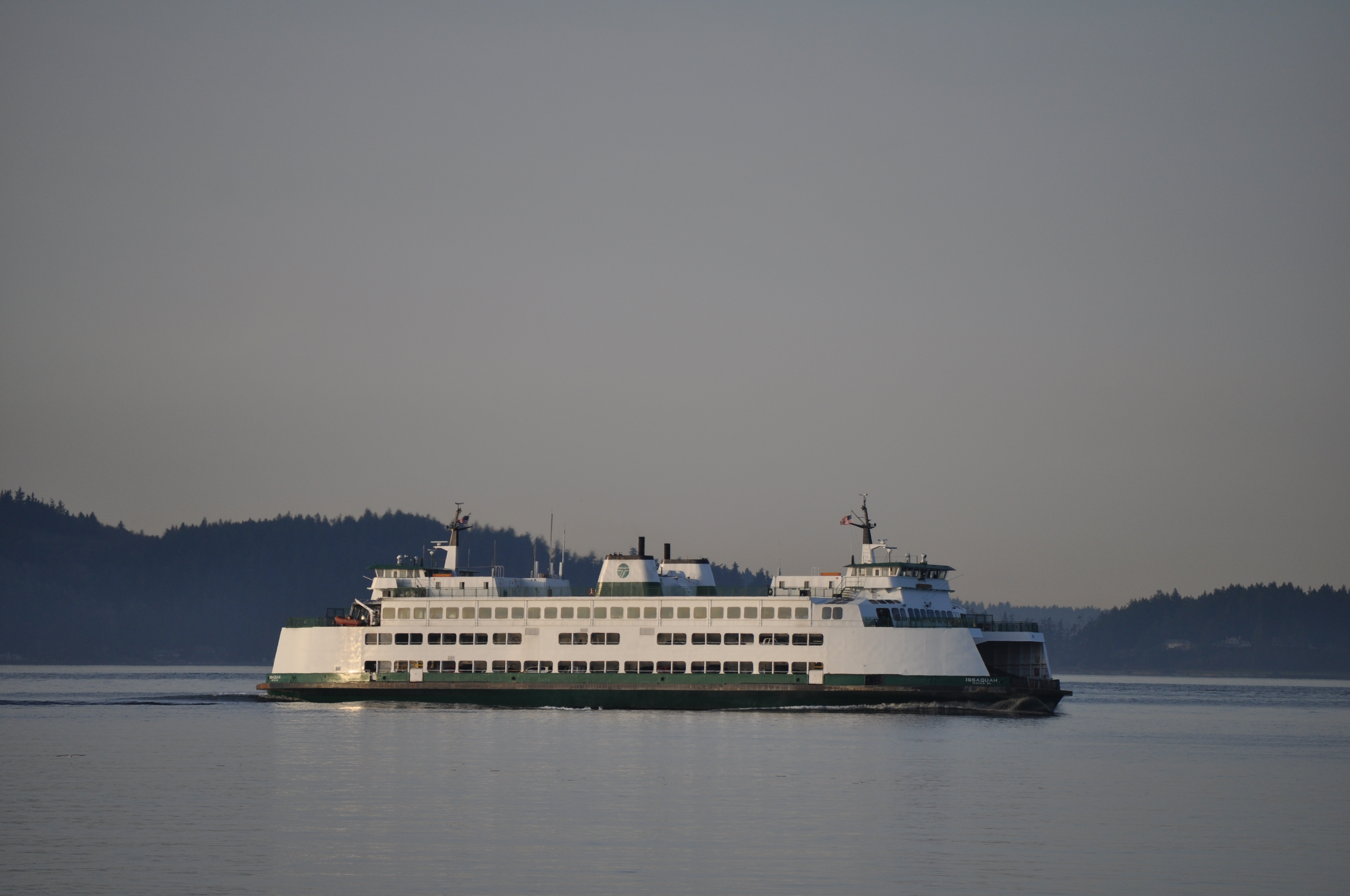 Washington State Ferry M/V Issaquah just north of the north tip of Vashon Island, Washington.